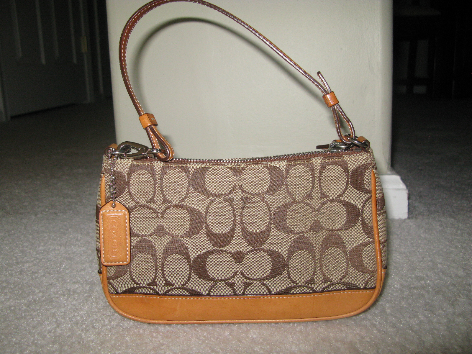 A brow Coach purse.